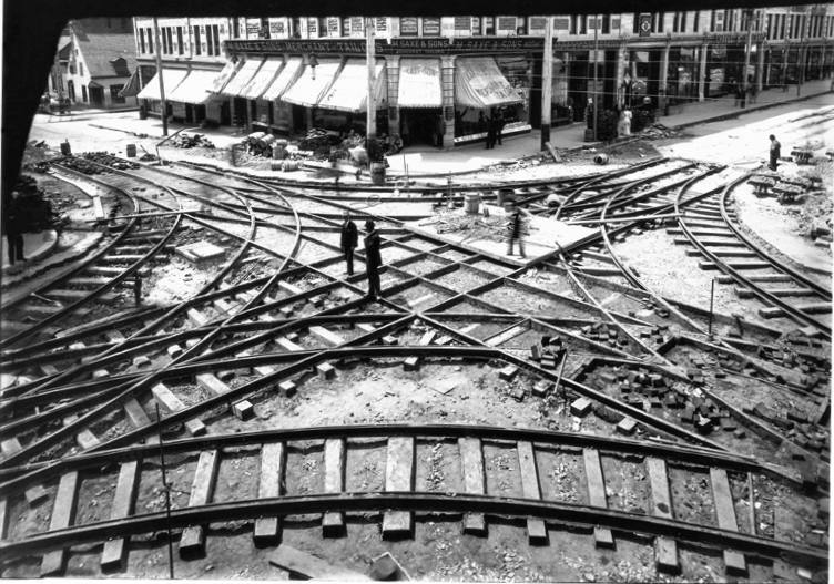 Photograph, Tramway crossing under construction, Ste. Catherine and St. Lawrence St., Montreal, QC, 1893, Wm. Notman & Son, Silver salts on glass - Gelatin dry plate process - 20 x 25 cm